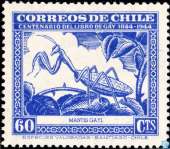 Coptopteryx gayi on Native flora and fauna series stamp, 60 c, (Chile 1948)